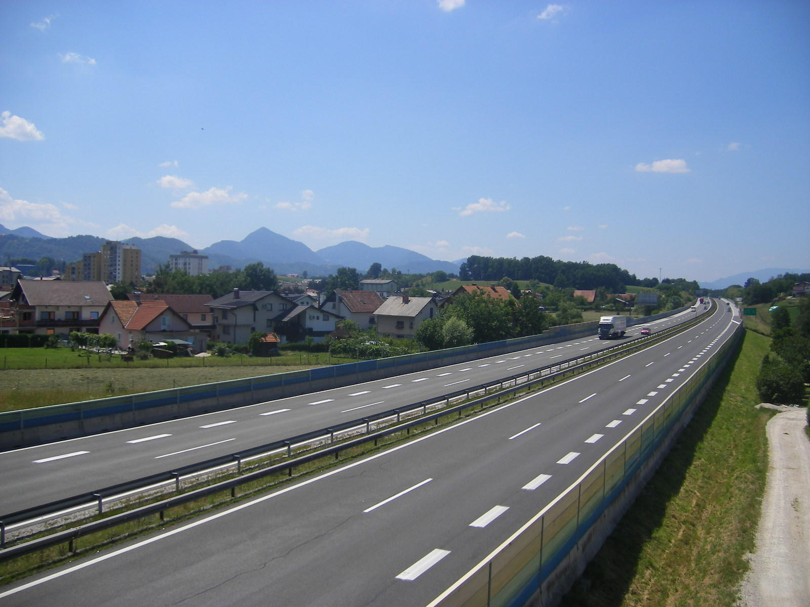 Celje - A1 highway